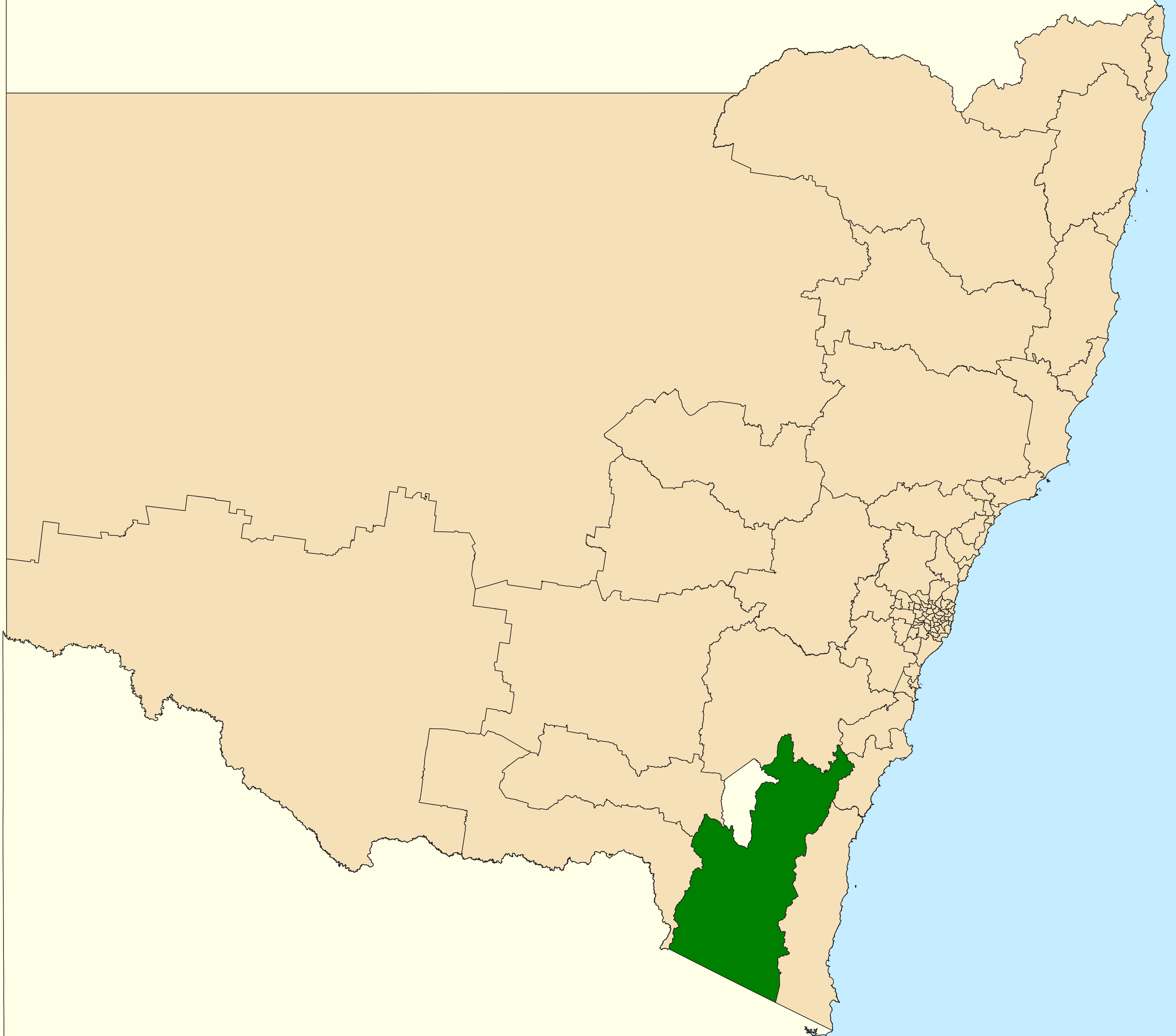 Location of the state electoral district of Monaro (dark green) in New South Wales as of the 2019 New South Wales state election. Incorporates or developed using Administrative Boundaries ©PSMA Australia Limited licensed by the Commonwealth of Australia under Creative Commons Attribution 4.0 International licence (CC BY 4.0).